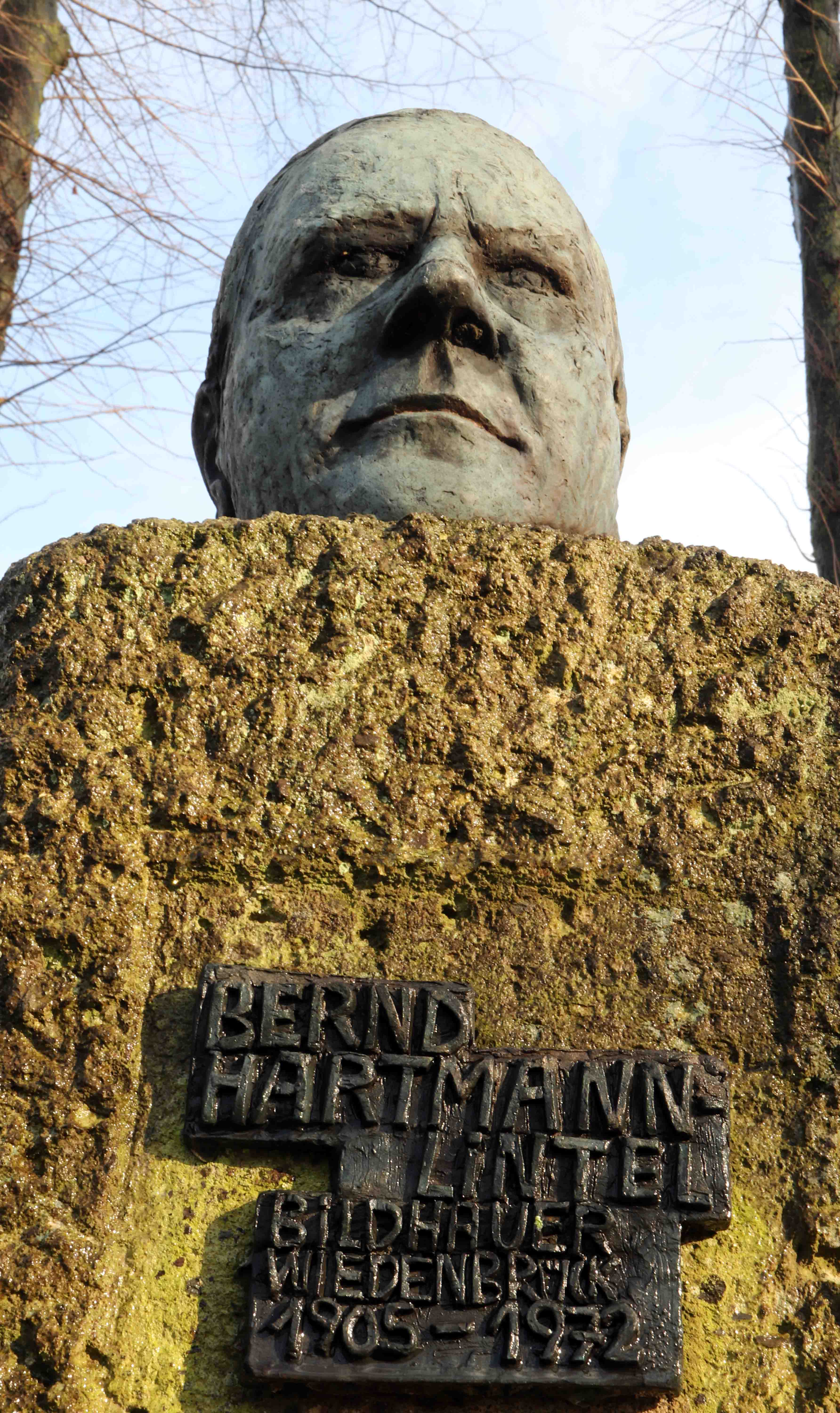 Sculpture Bernd Hartmann-Lintel in Rheda-Wiedenbrueck